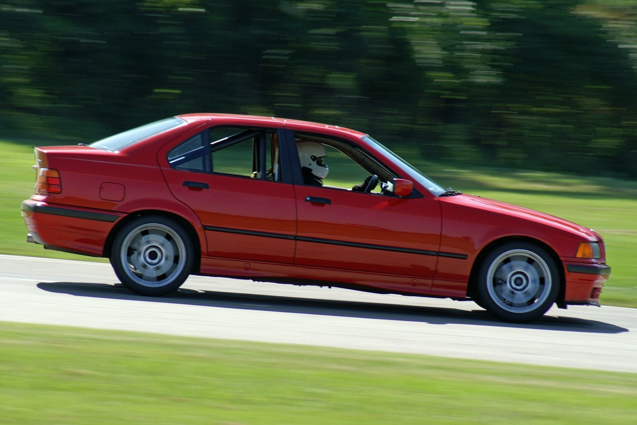 BMW